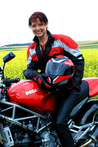 Gabriele Pauli